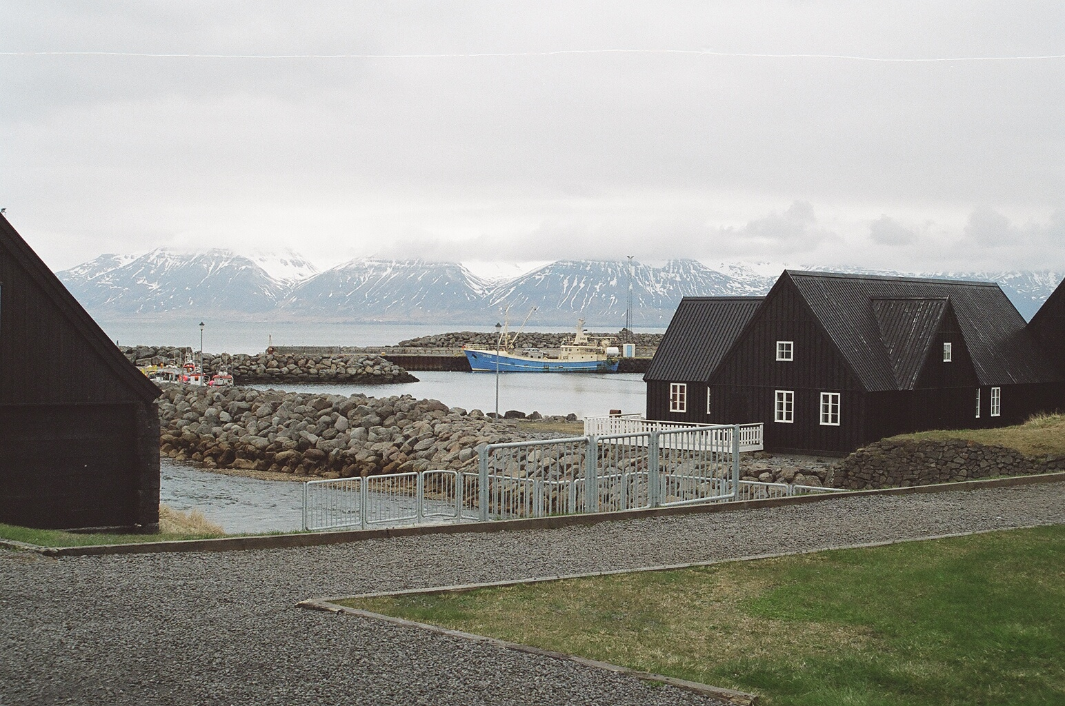 The picture shows part of the village of Hofsós in the north of Iceland.